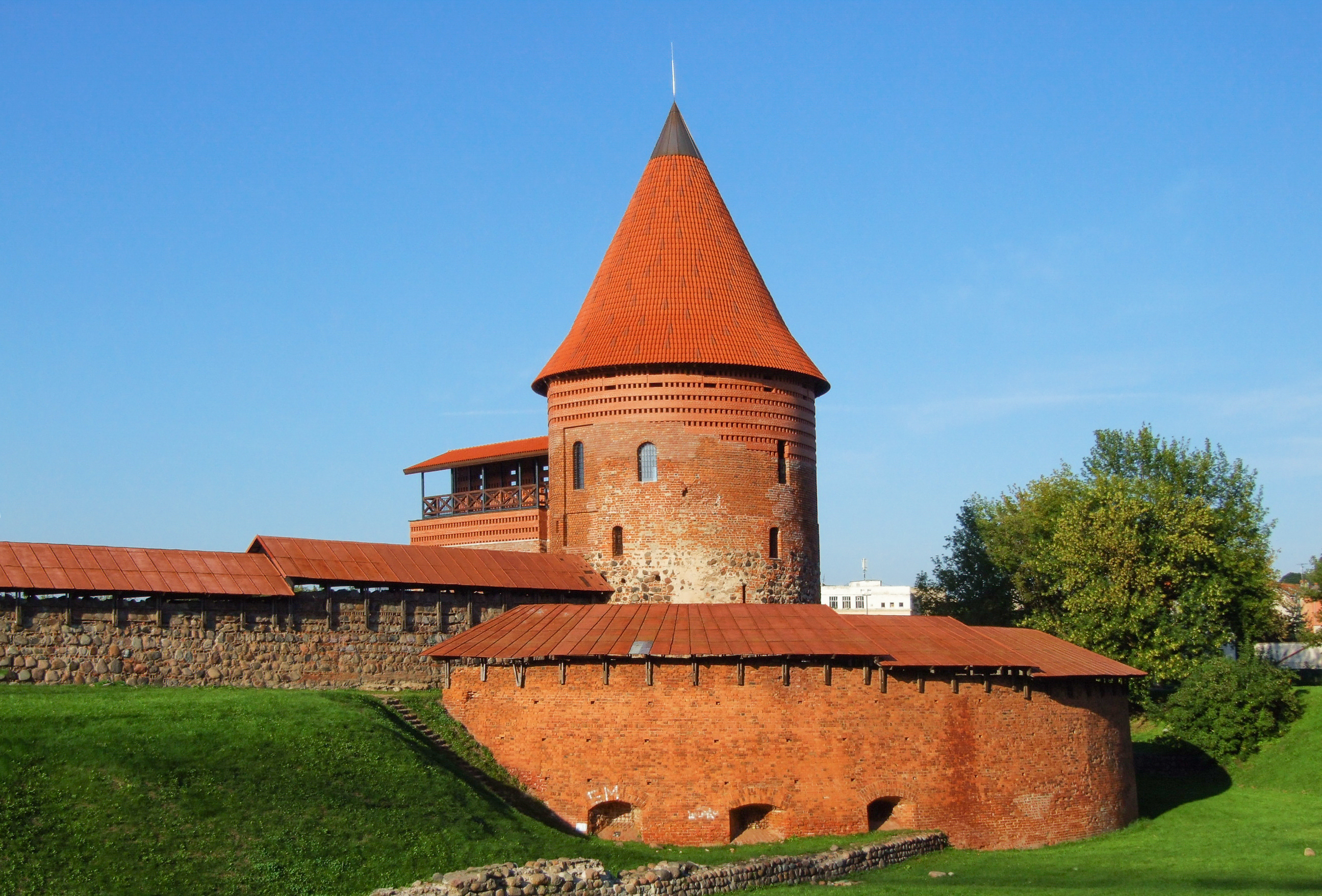 Kaunas Castle